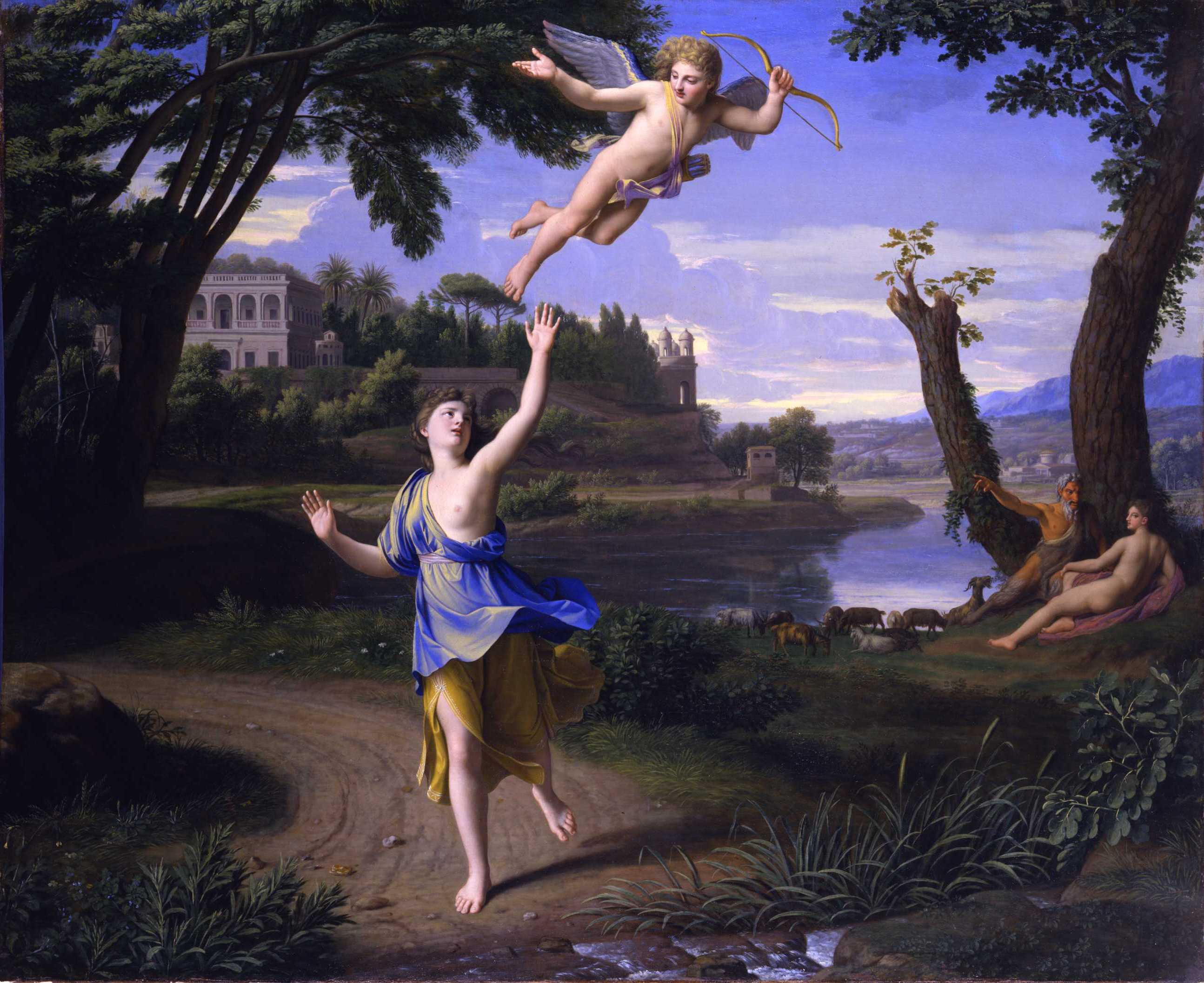 Cupid and Psyche